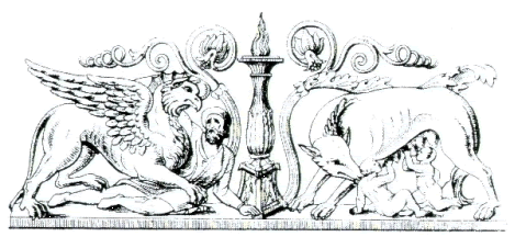 Vignette of the "Roman Hyperboreans", made by Otto Magnus von Stackelberg in 1825